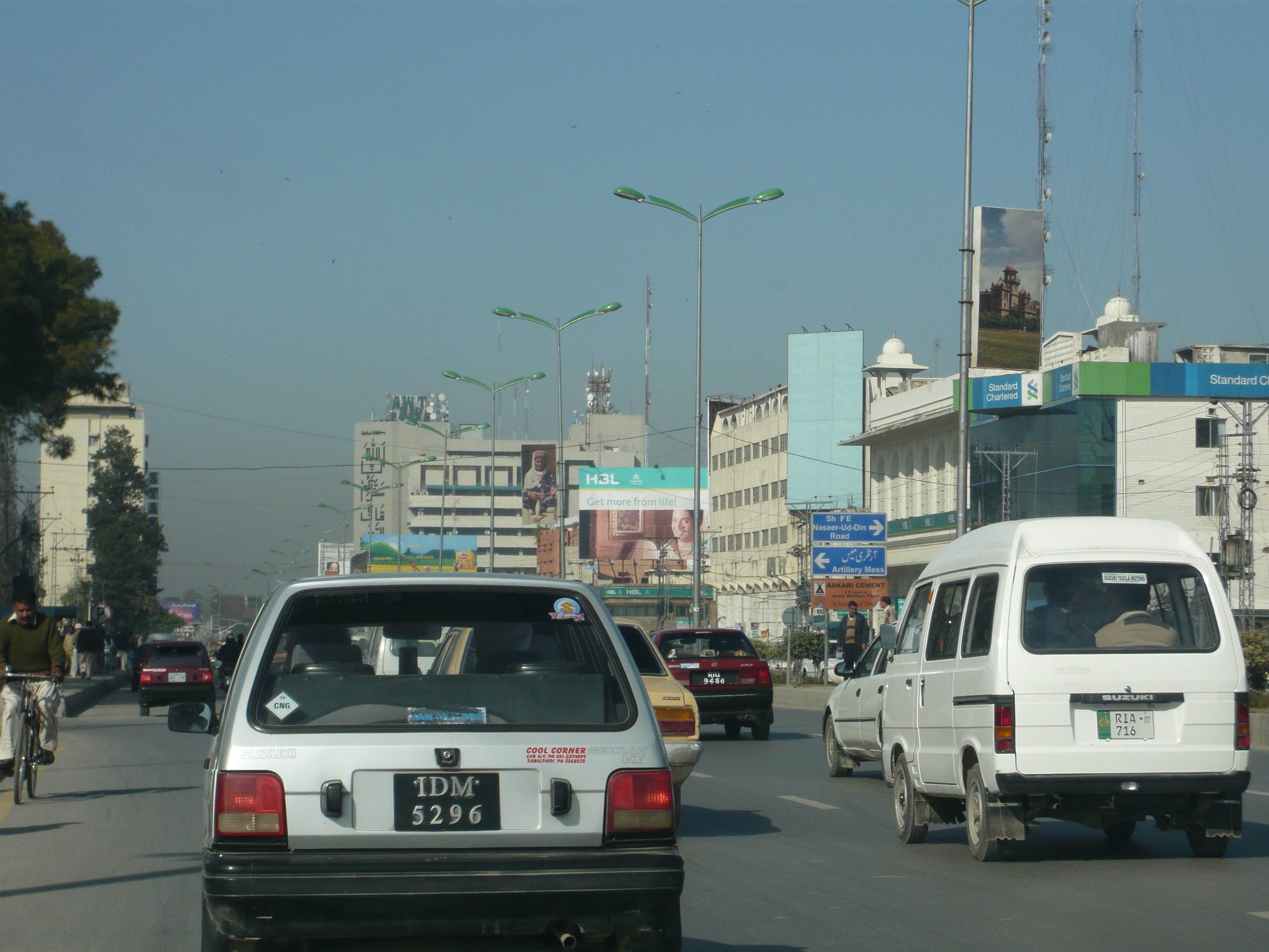 Muree Road, Rawalpindi